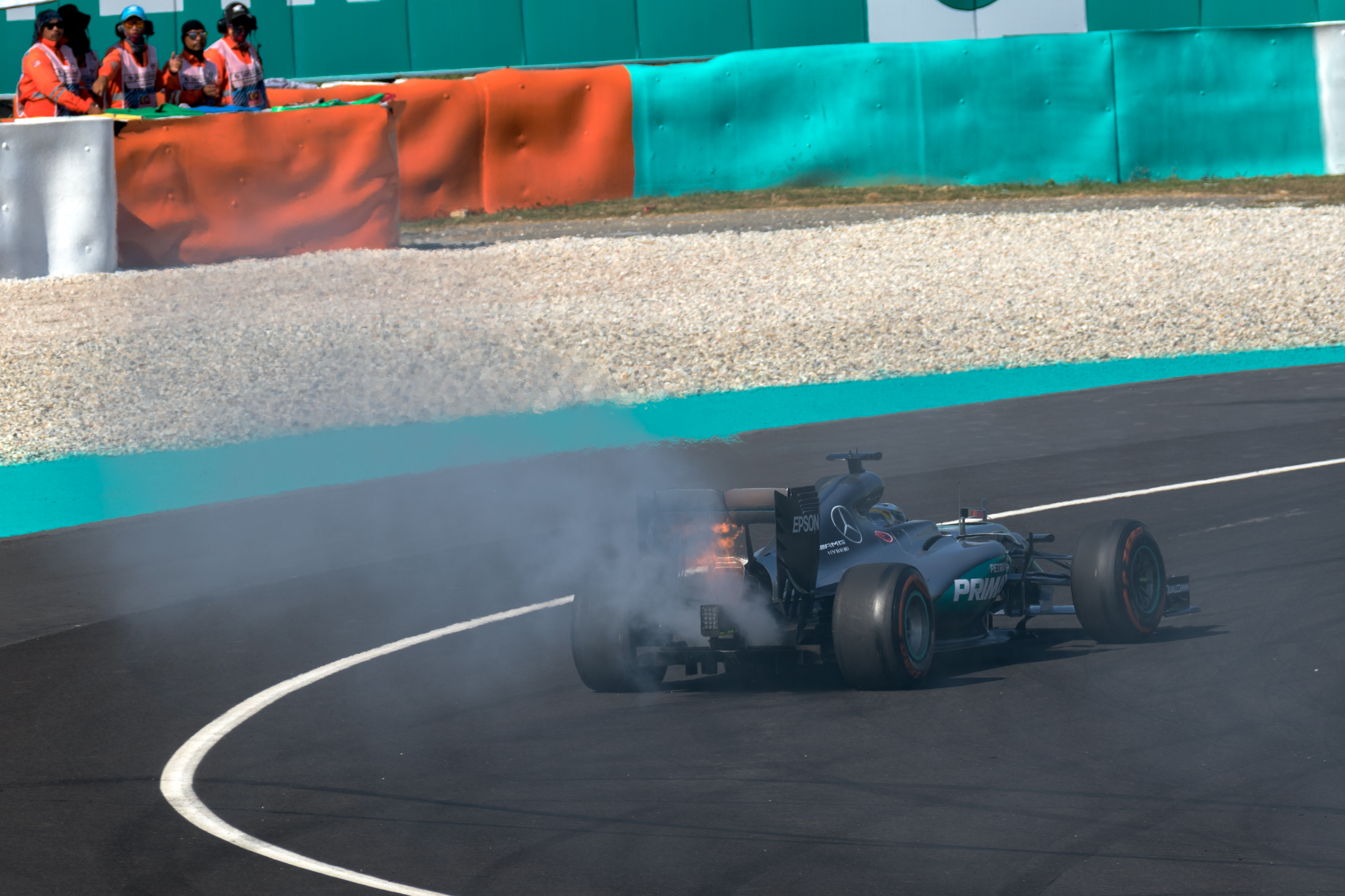 Formula One 2016 Rd.16 Malaysian GP: Lewis Hamilton (Mercedes), an engine failure.